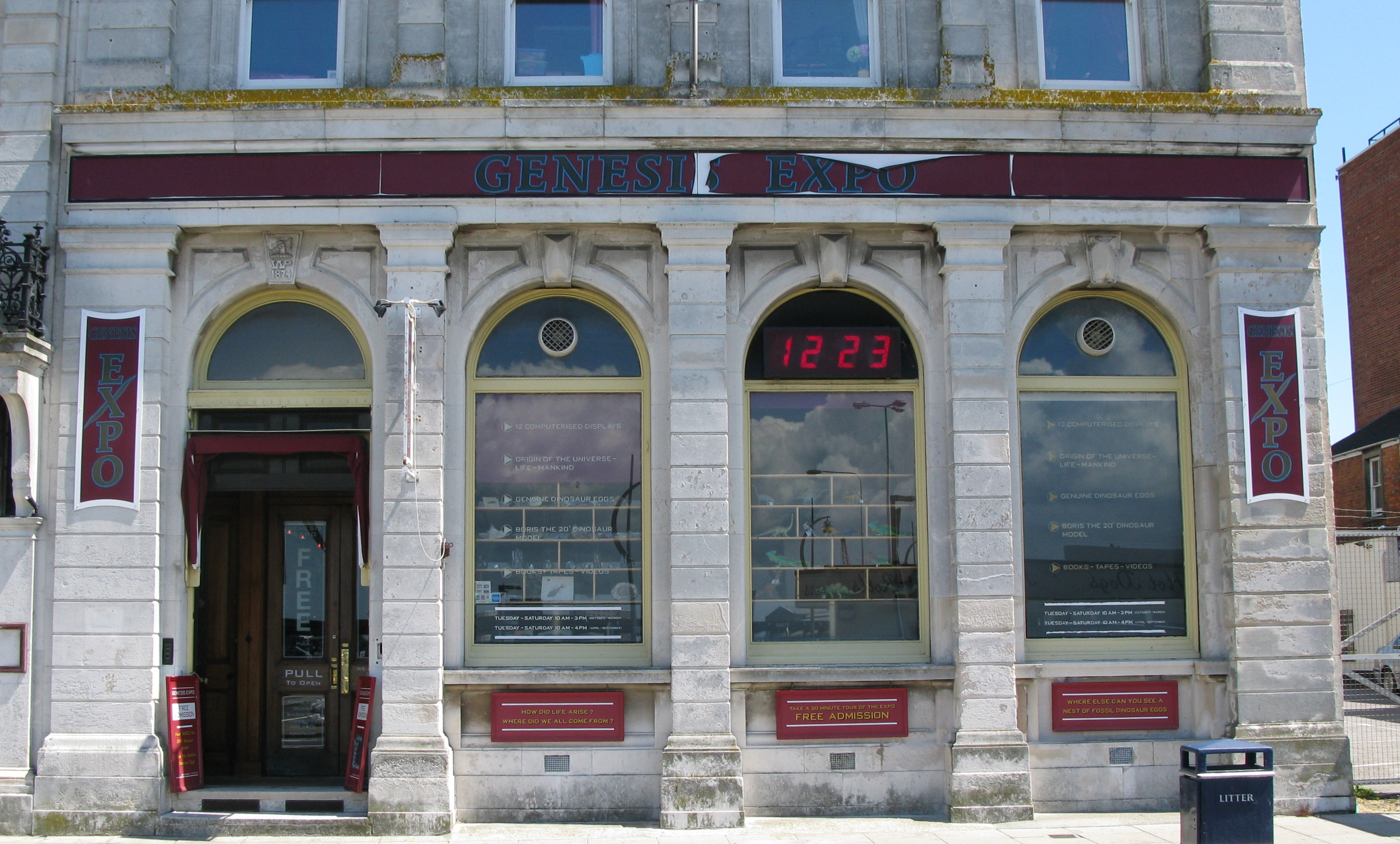 Photo of the outside of the Genesis Expo Creationist museum in portsmouth.